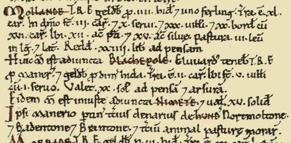 Text of Exeter Domesday Book of 1086, under the heading "The King's Demesne belonging to the kingdom in Devenesscira", for the manor later known as Molland-Bottreaux. Latin text: "Mollande tempore regis Edwardi geldabat pro iiii hidis et uno ferling. Terra est xl carucis. In dominio sunt iii carucae et x servi et xxx villani et xx bordarii cum xvi carucis. Ibi xii acrae prati et xv acrae silvae. Pastura iii leugae in longitudine et latitudine. Reddit xxiiii libras ad pensam. Huic manerio est adjuncta Blachepole. Elwardus tenebat tempore regis Edwardi pro manerio et geldabat pro dimidia hida. Terra est ii carucis. Ibi sunt v villani cum i servo. Valet xx solidos ad pensam et arsuram. Eidem manerio est injuste adjuncta Nimete et valet xv solidos. Ipsi manerio pertinet tercius denarius de Hundredis Nortmoltone et Badentone et Brantone et tercium animal pasturae morarum".